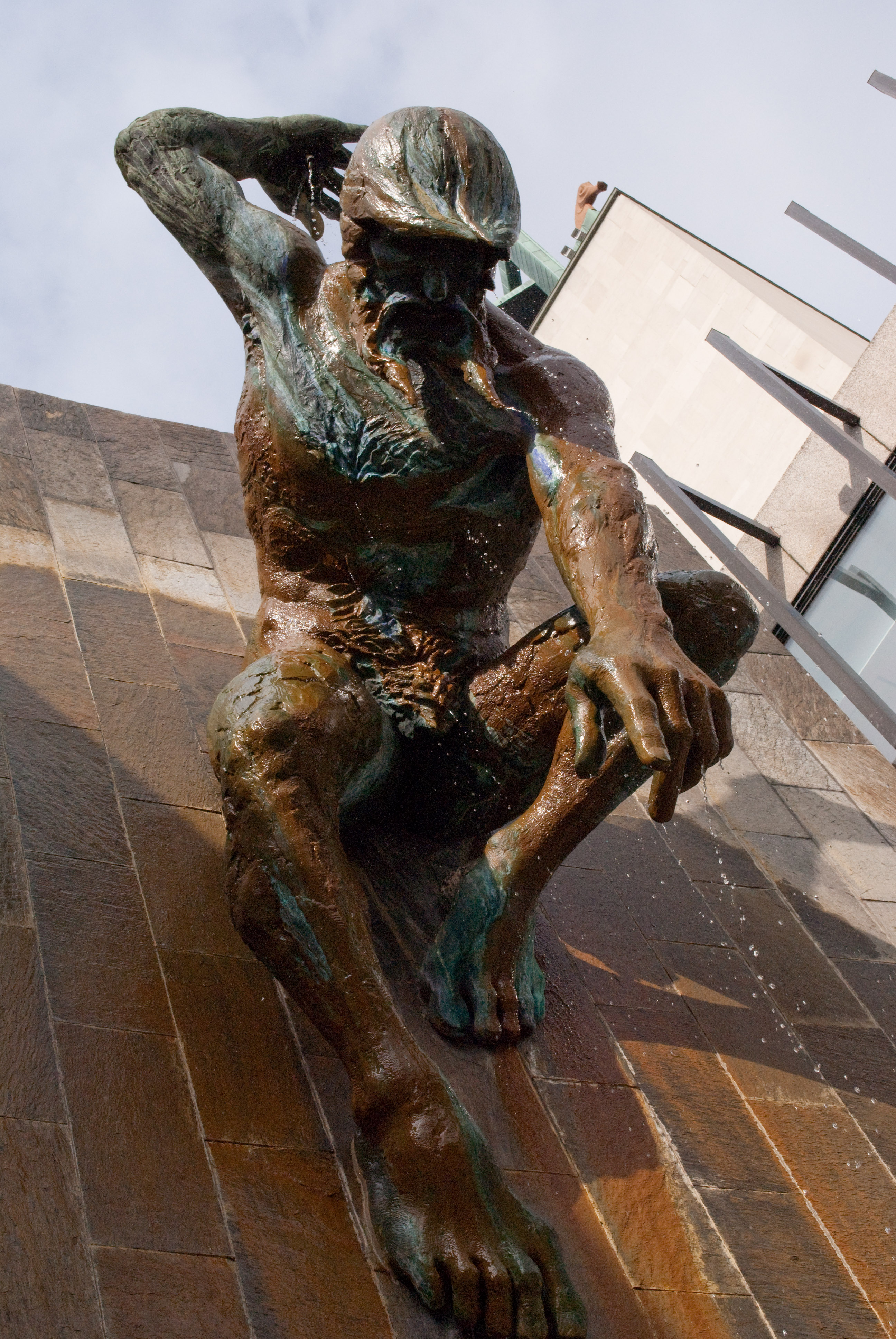 At the north end of the Ceremonial Way, mounted on the Otta slate flank wall forming the link to the Council Chamber, is the majestic bronze sculpture of the River-God Tyne by David Wynne - some sixteen feet (4.8 m) high and two and a quarter tons (2880 kg) in weight which, in its time, was the largest bronze figure to be erected in this country since Rodin’s time. It is further unique in that water pours from his elevated hand drenching the body and symbolising his significance as the allegorical God of the Tyne River.